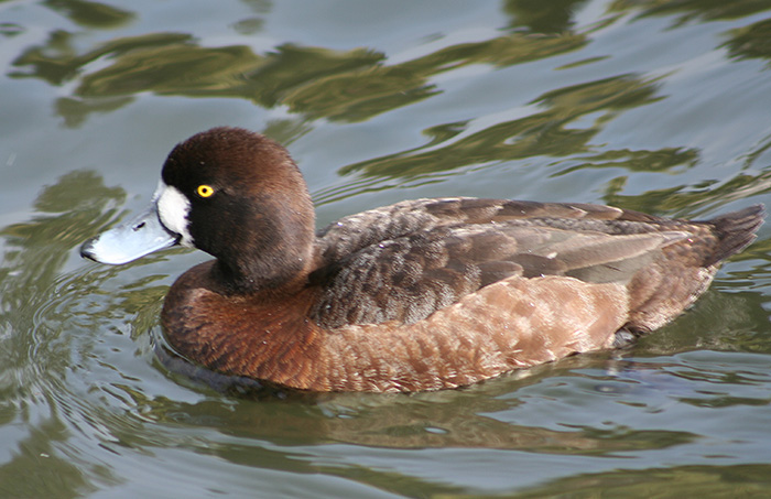 Female Greater Scaup (Aythya marila) taken at Lake Merritt in Oakland, California.